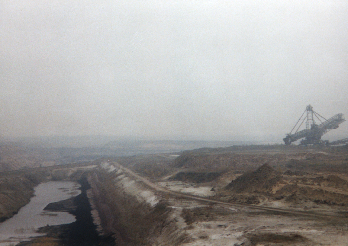 Coal mining site Profen near Großgrimma, Germany